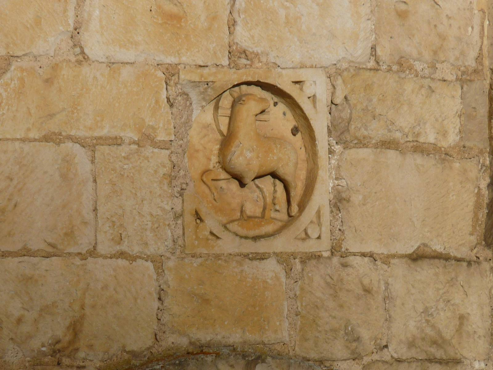 church of Cellefrouin, Charente, SW France